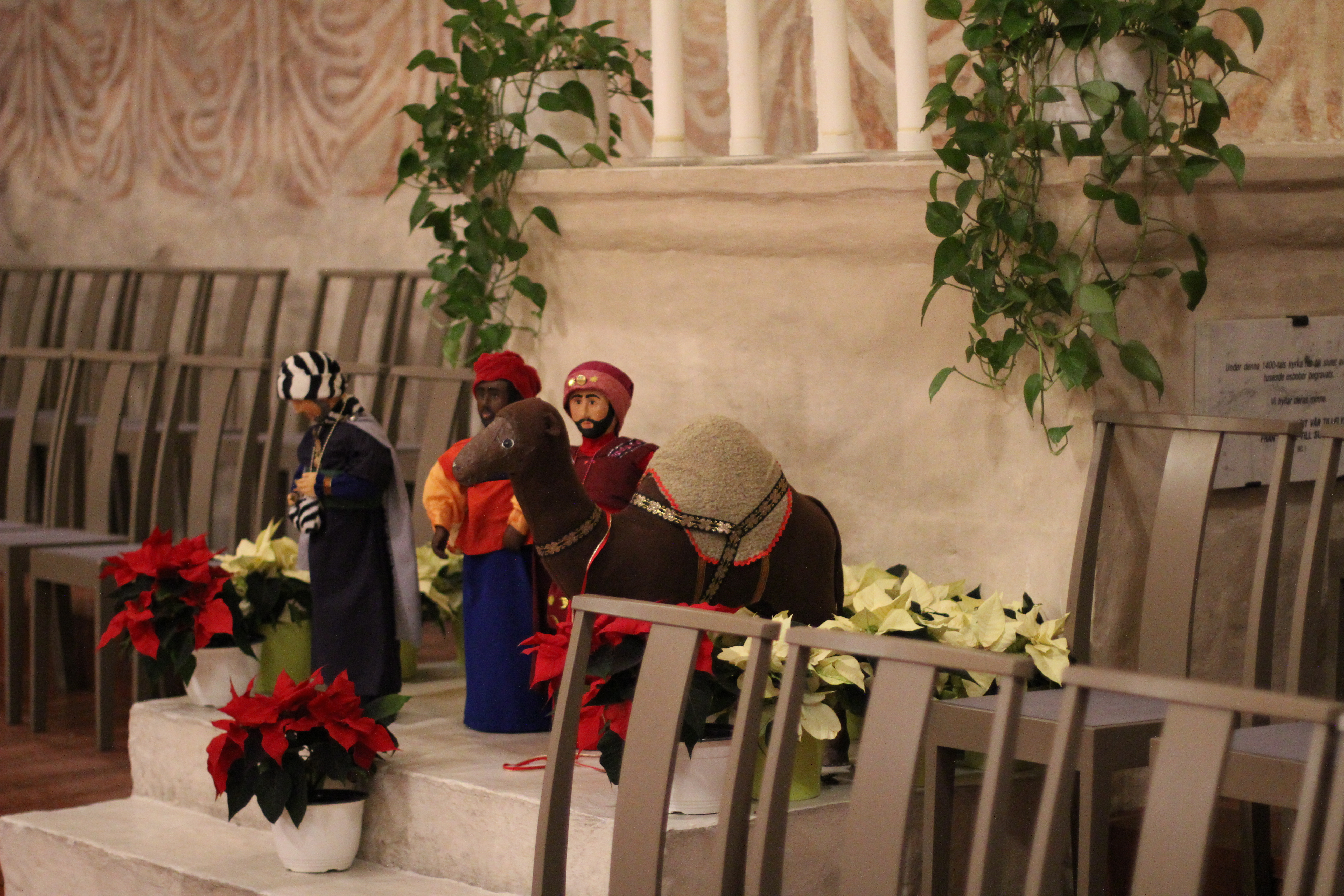 Espoo cathedral, Espoo, Finland. - Three wise men, as a separate part of the Nativity scene of Christmas season.